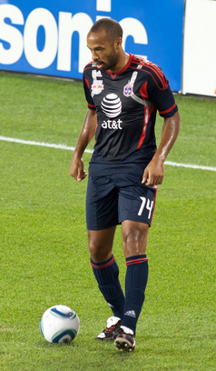 Phil Jones, Thierry Henry